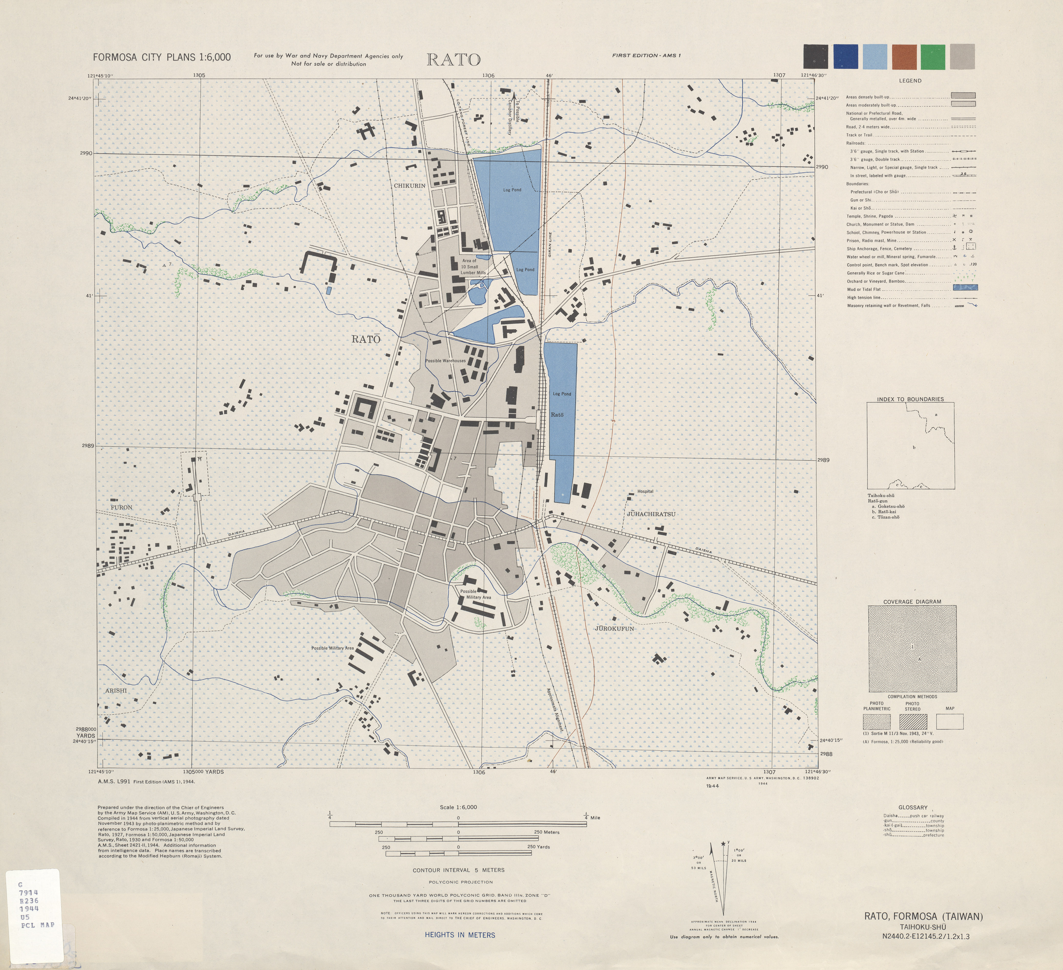 Rato 1:6,000 1944